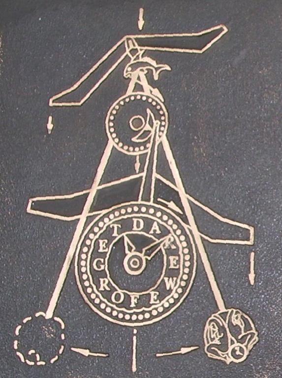 Hornsby water clock: detail of plaque showing diagram showing general layout of Swiss pendulum clock.